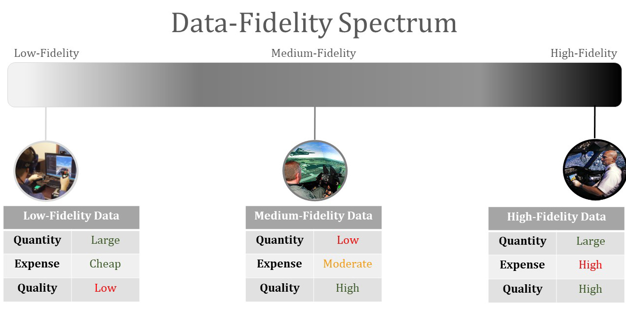 Diagram depicting the data-fidelity spectrum for human-in-the-loop aerospace systems